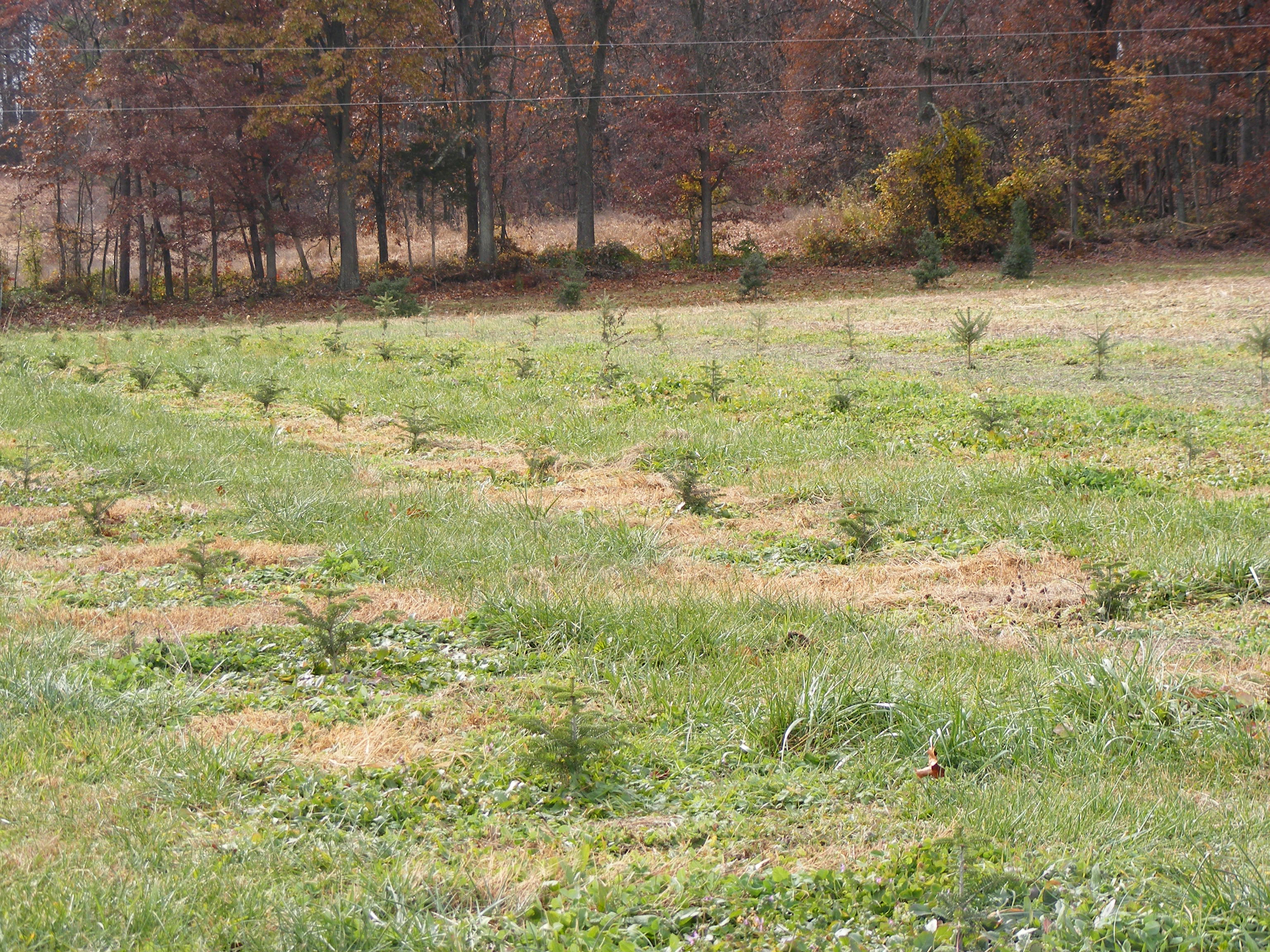 Picture of Canaan Fir Abies balsamea var. phanerolepis seedlings at Mountain View Farm in Edinburg, VA.